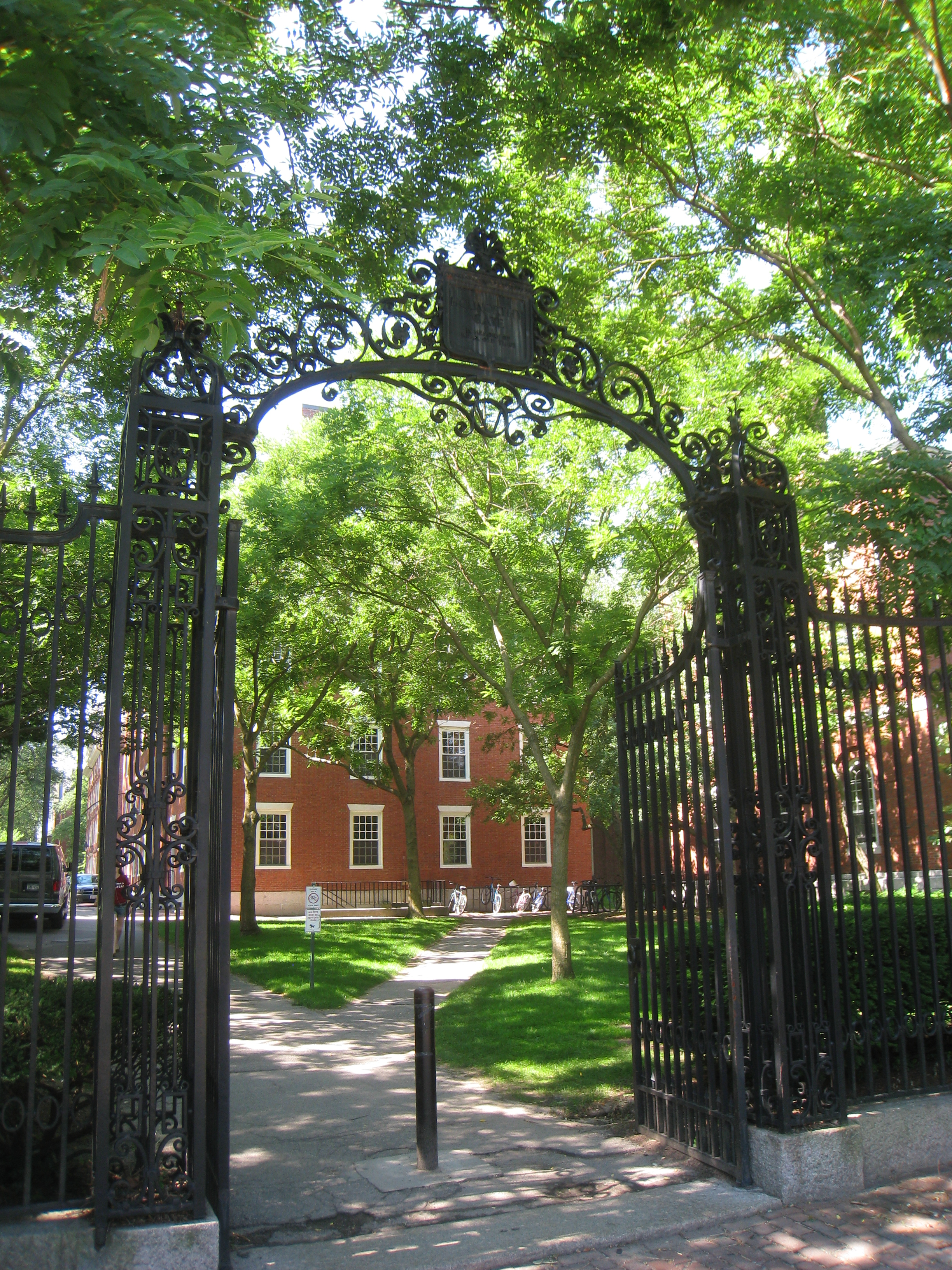 Holworthy Gate, Harvard Yard, Harvard University, Cambridge, Massachusetts, USA.